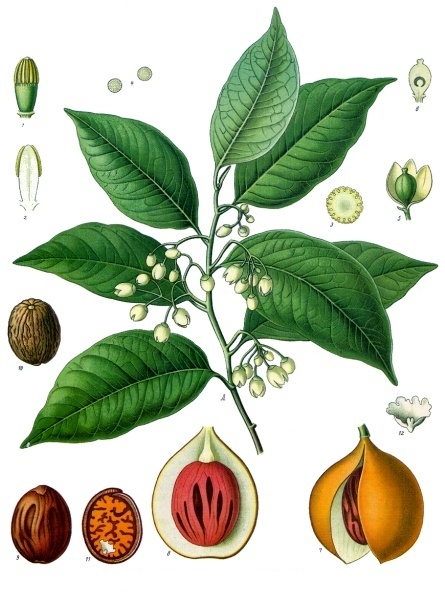 Myristica fragrans illustration by Franz Eugen Köhler in Köhler's Medizinal-Pflanzen